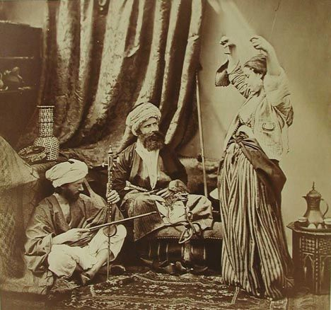 Roger Fenton Pasha and Bayadere